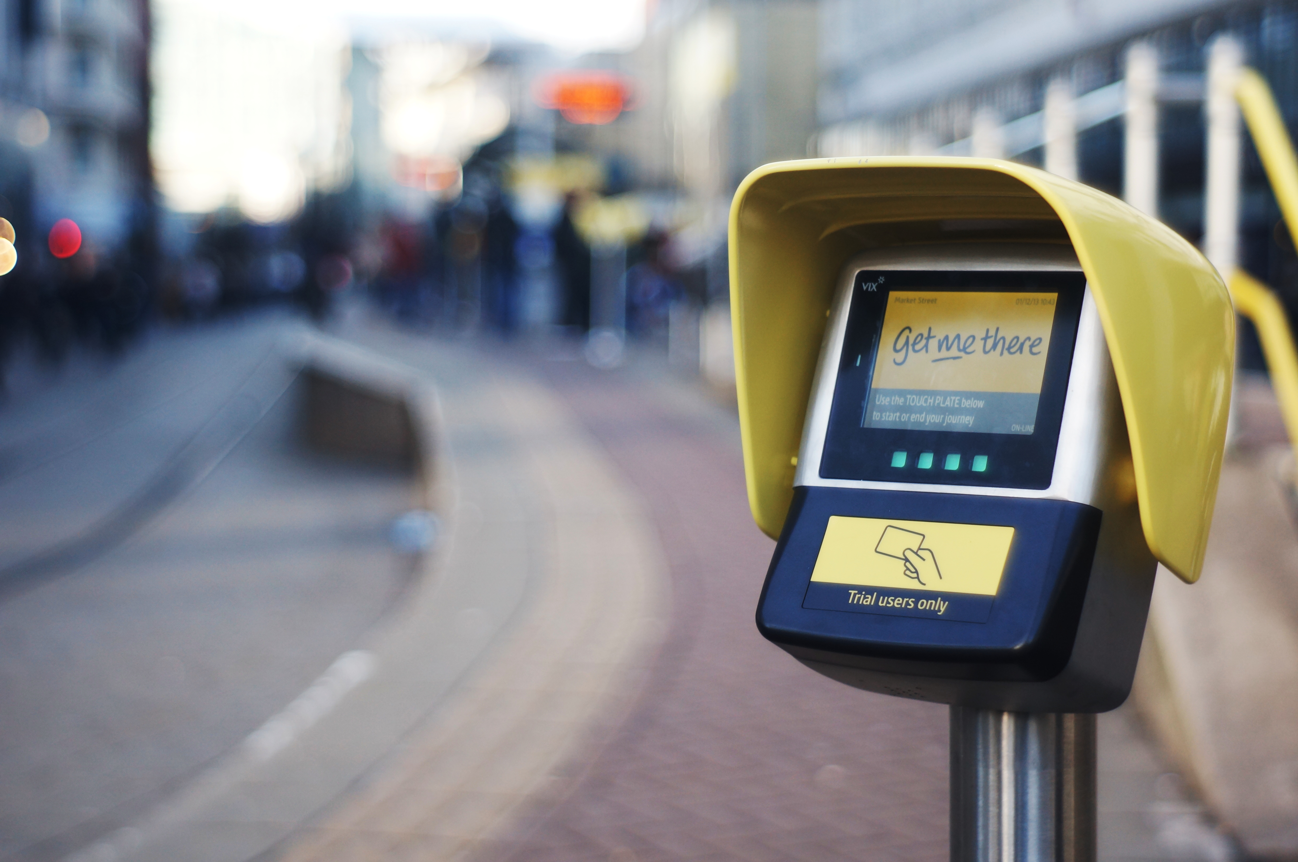 Trials of the new Get Me There fare payment system on Greater Manchester's Metrolink system